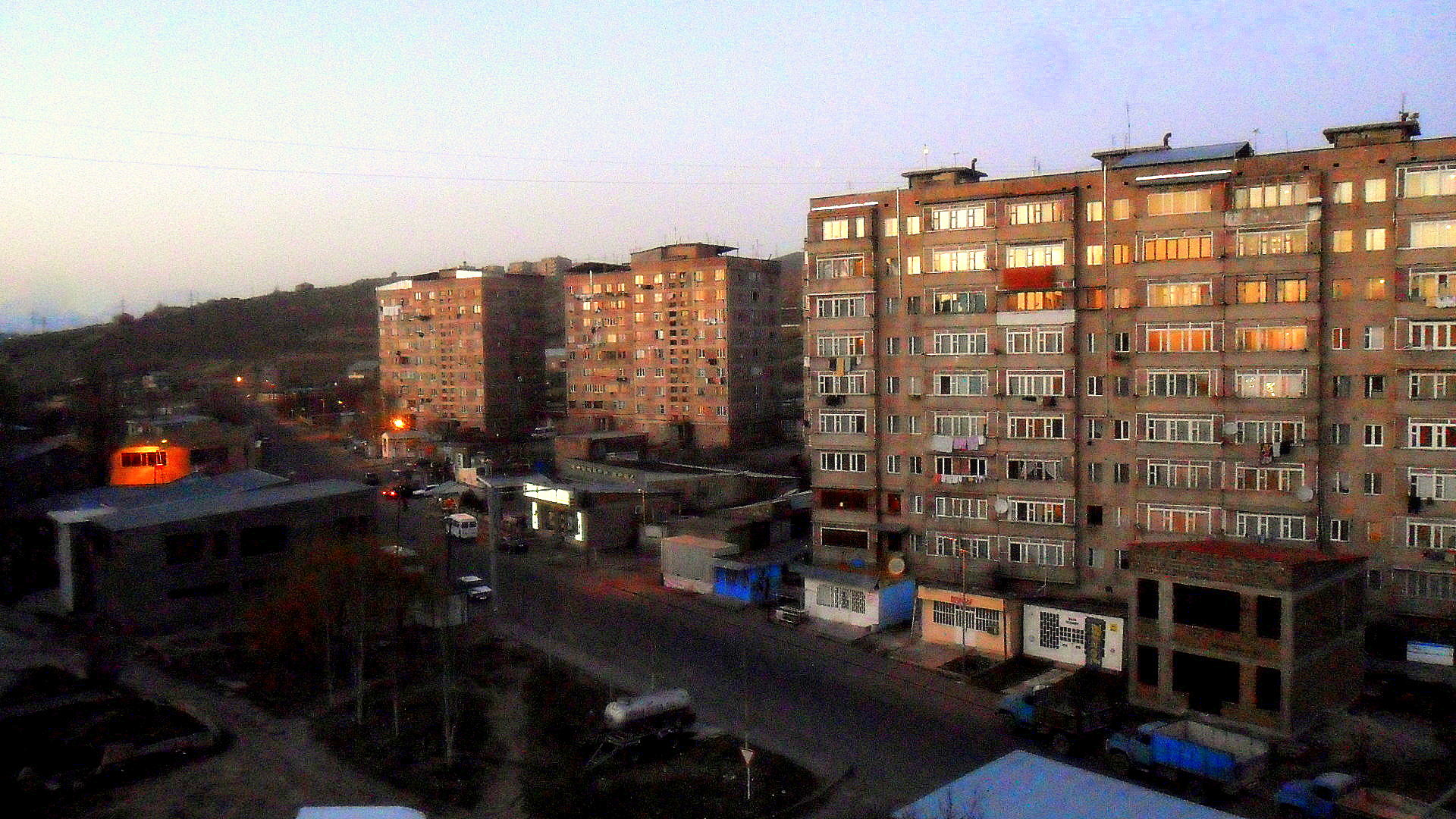 Zoravar Andranik street, Byureghavan, Armneia